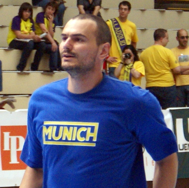 Marko Krivokapic, Serbian handballer, before the EHF Cup Winners' Cup Final vs HSG Nordhorn in Valladolid.